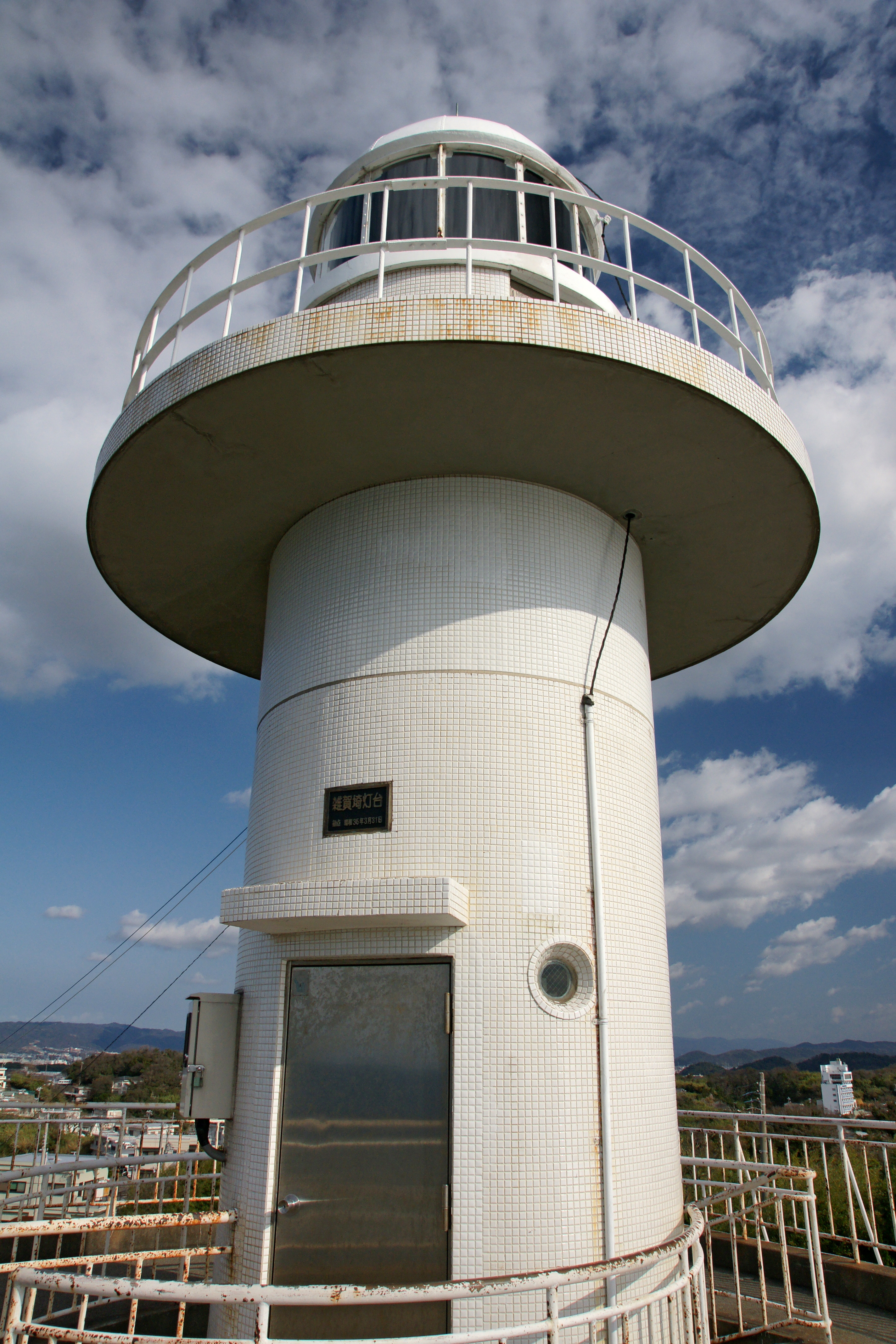 Saikazaki Lighthouse, Wakayama, Wakayama prefecture, Japan